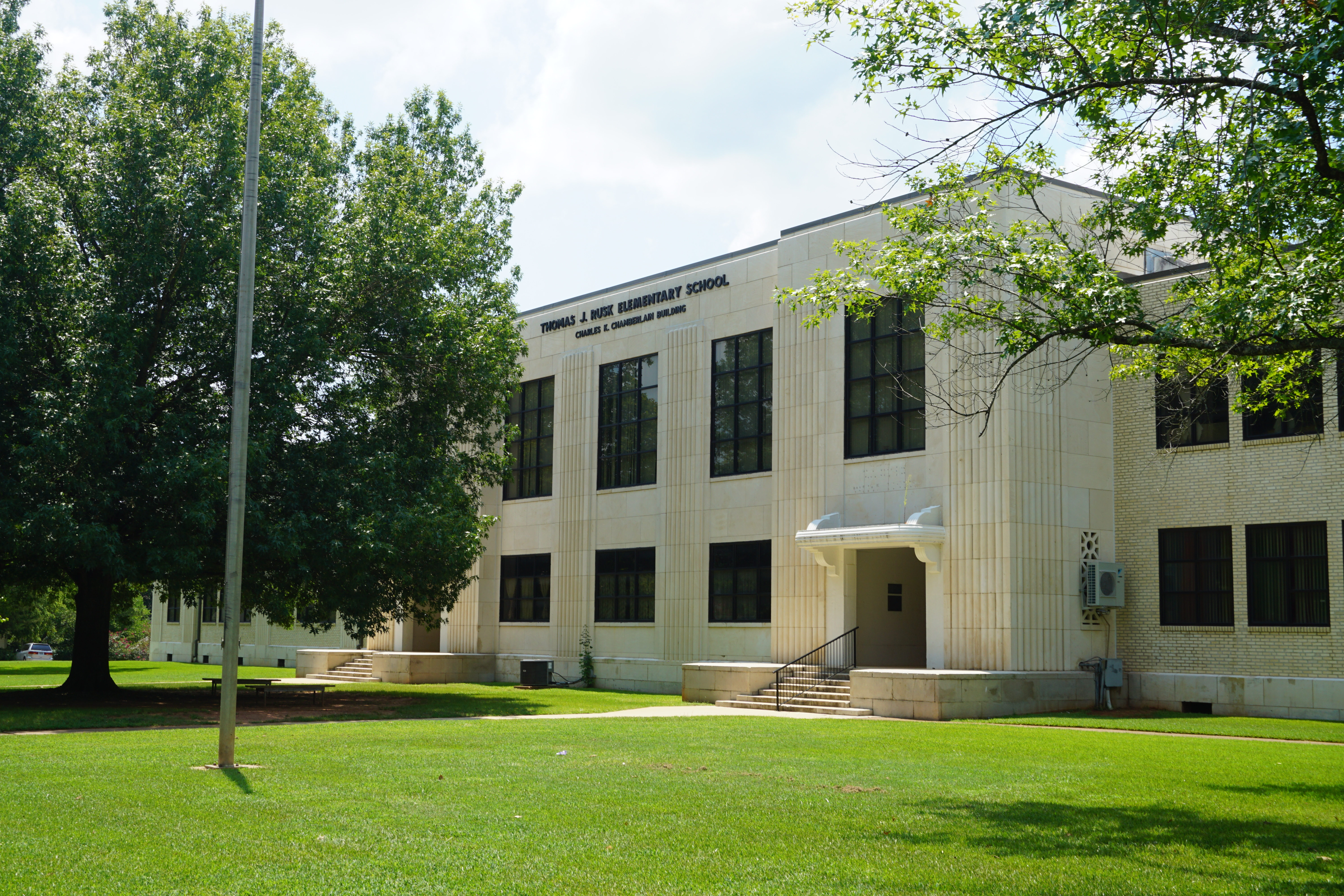 Thomas J. Rusk Elementary School in Nacogdoches, Texas (United States).